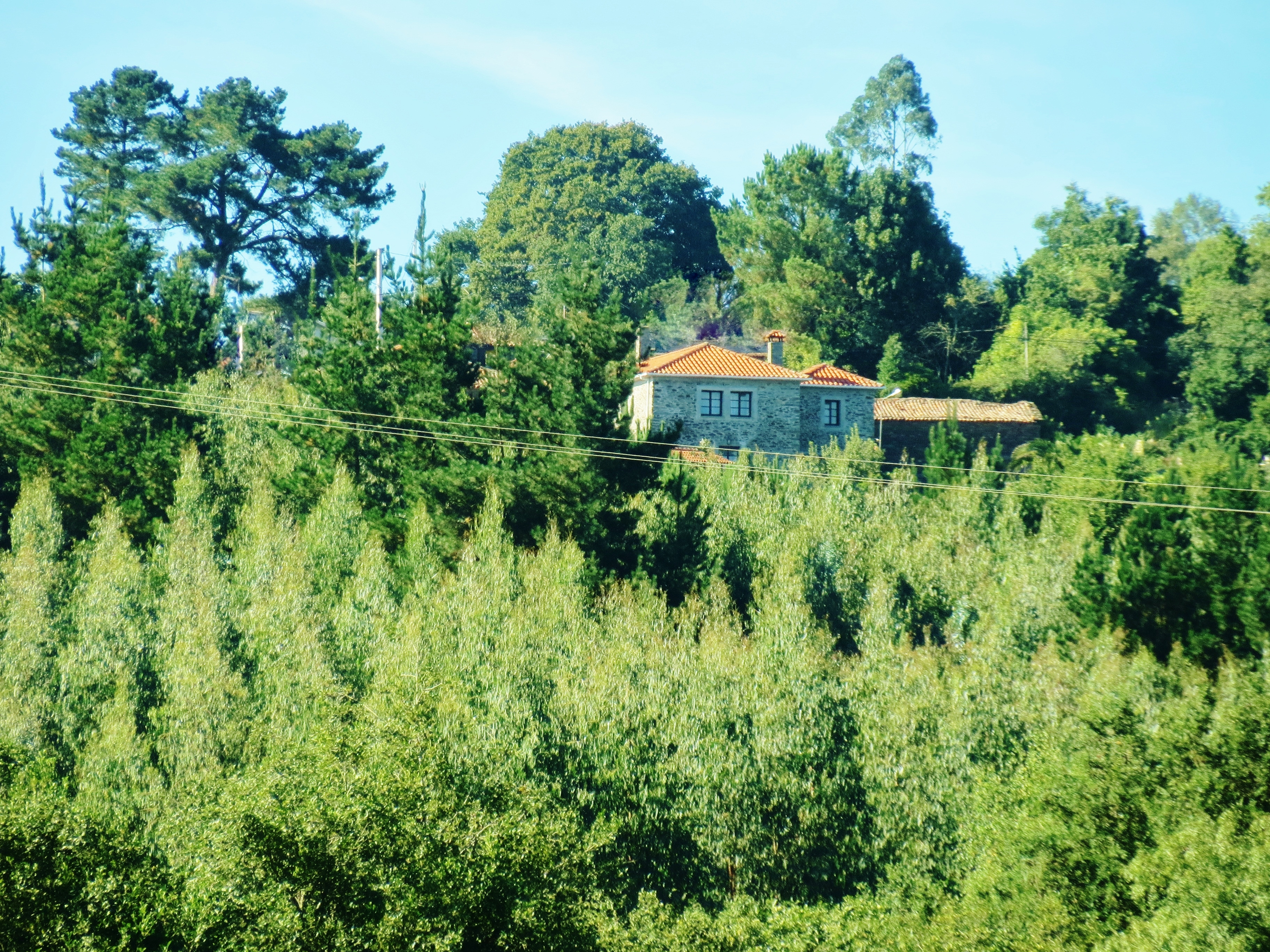 The Pazo of Mariñas in the Tambre Valley, in Aiazo (Frades, Galicia)